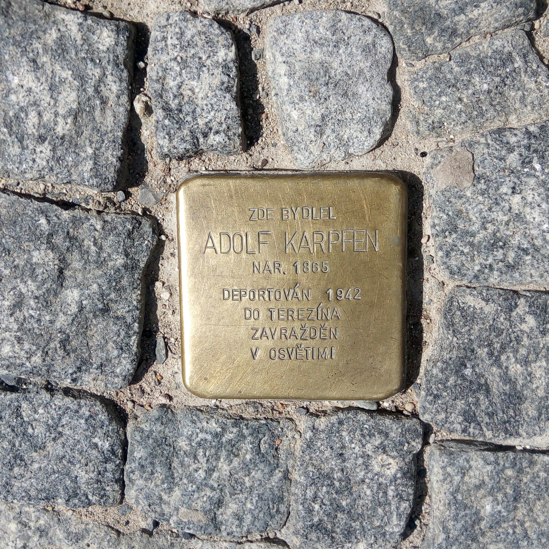 Stolpersteine in the city of Olomouc, Olomouc Region, Czech Republic.